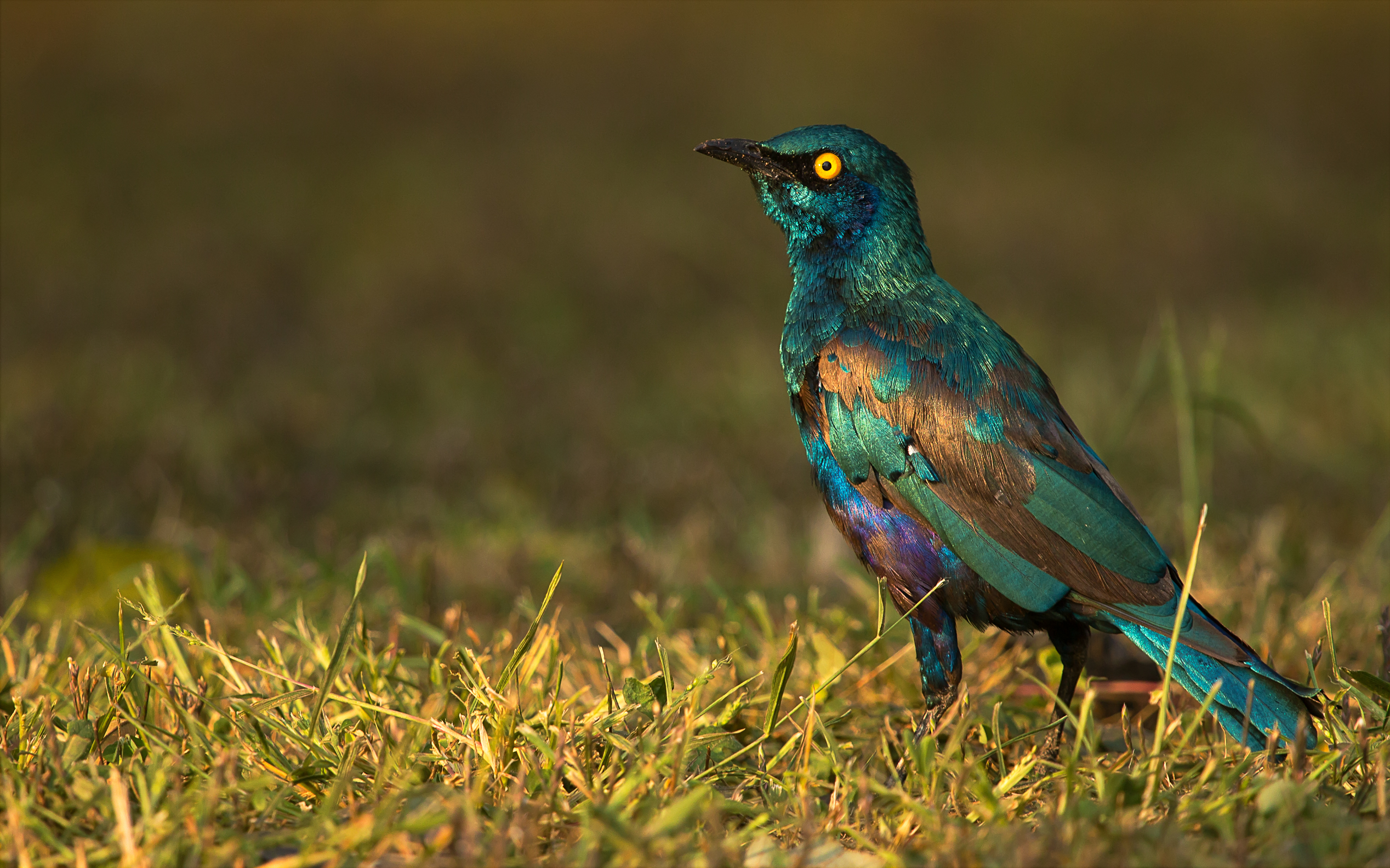 An immature Lesser blue-eared starling at the University of Ghana, in Accra, Ghana, moulting into adult plumage